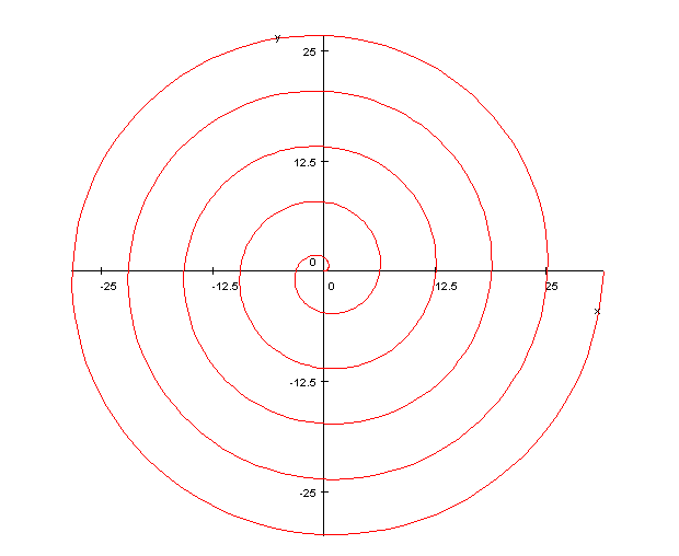 Archimedes' spiral